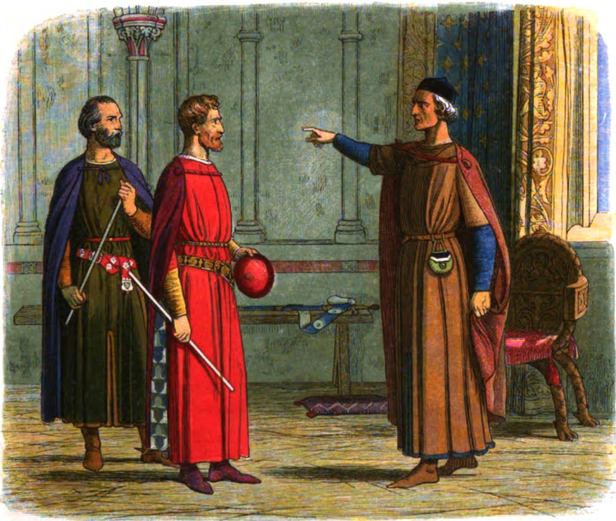 Edward I threatens Roger Bigod, 5th Earl of Norfolk, to comply with his orders: "You shall either go, or hang!"